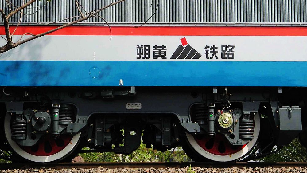 The bogie of a China Railways SS4B electric locomotive